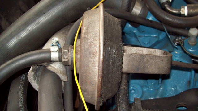 pneumatic cruise control actator